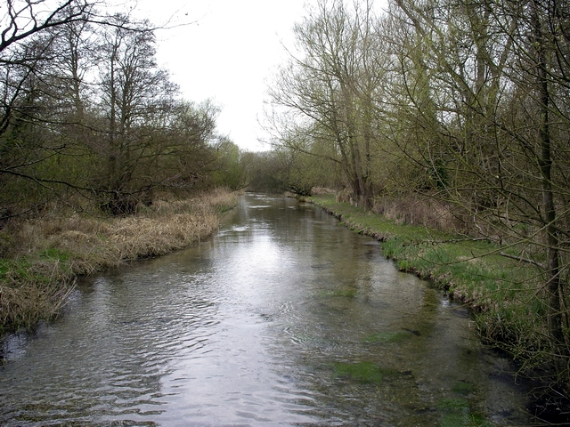 River Dever, Bransbury Looking south west from the bridge over the river in Bransbury. The River Dever flows towards its merger with the River Test.